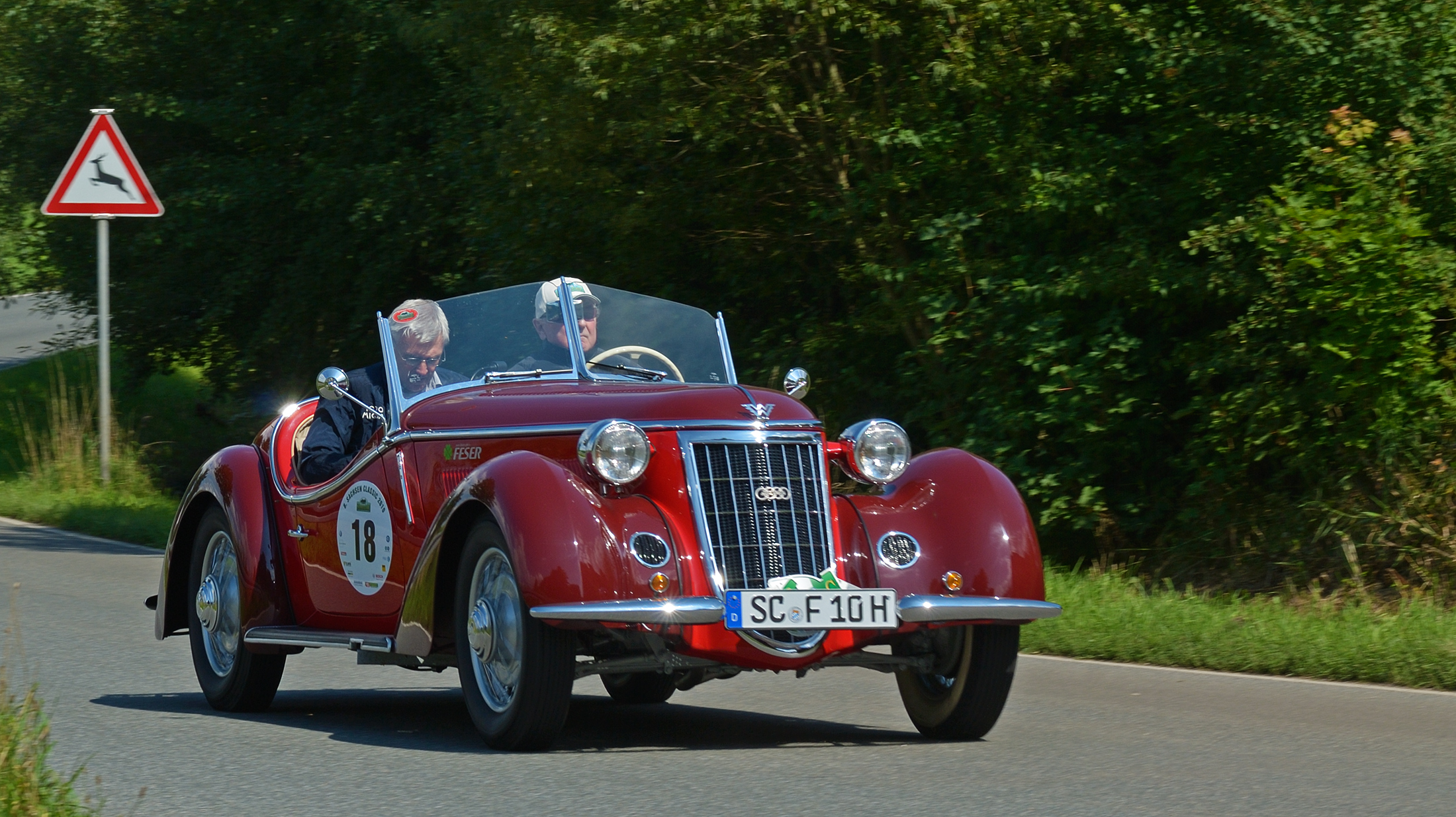 Wanderer W25 from 1937 during the Saxony Classic Rallye 2010